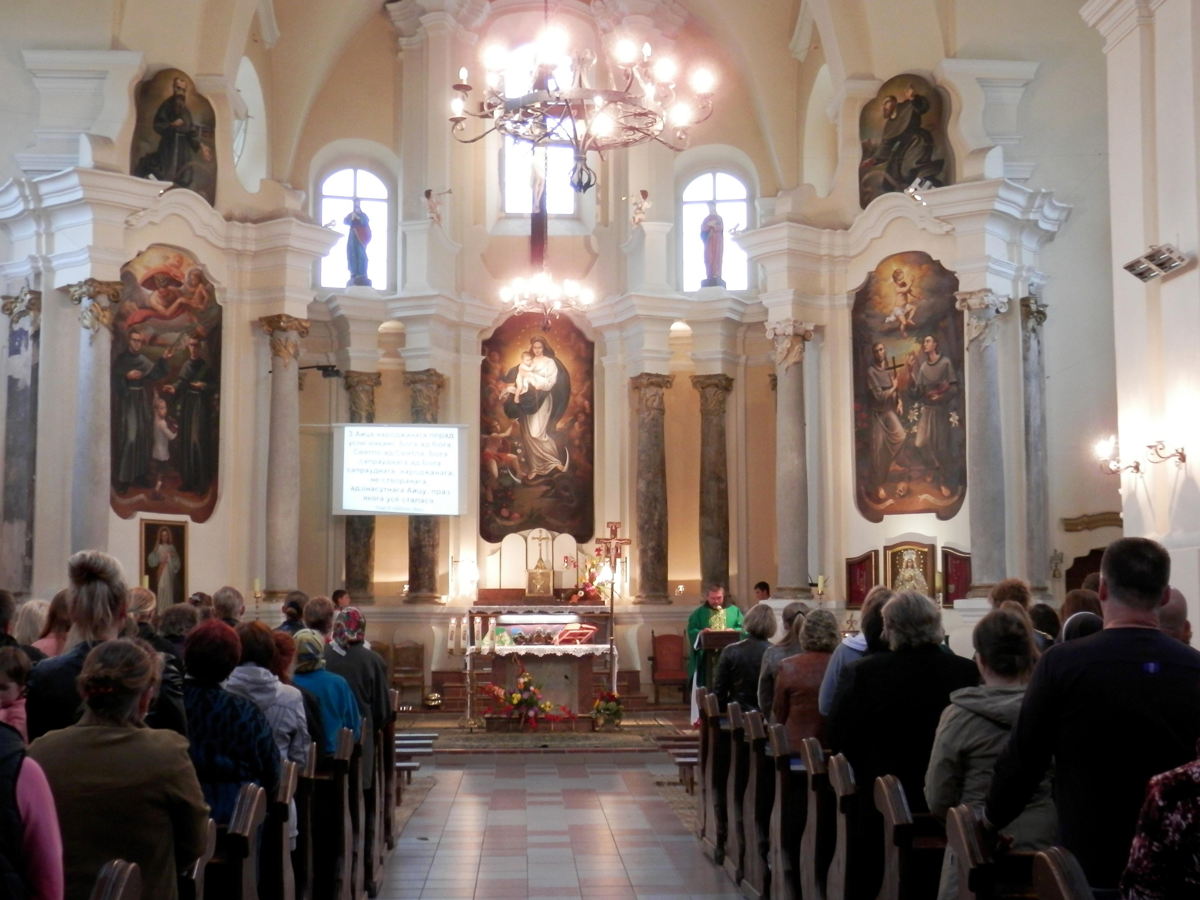 Franciscan Church of Saint Michael the Archangel. Ivyanets, Belarus.